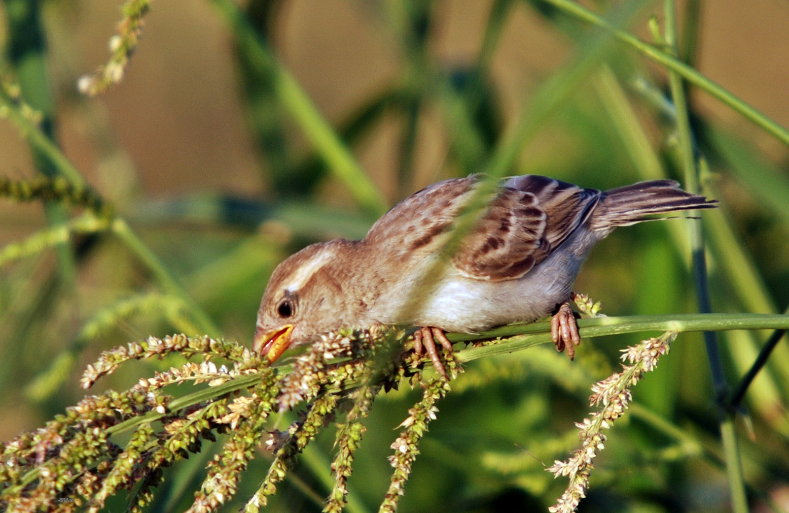 Juvenile Dead Sea Sparrow in southeastern Turkey Kurdî: Çeçika beytika biçûk. Li Qorixçî hatiye kişandin.